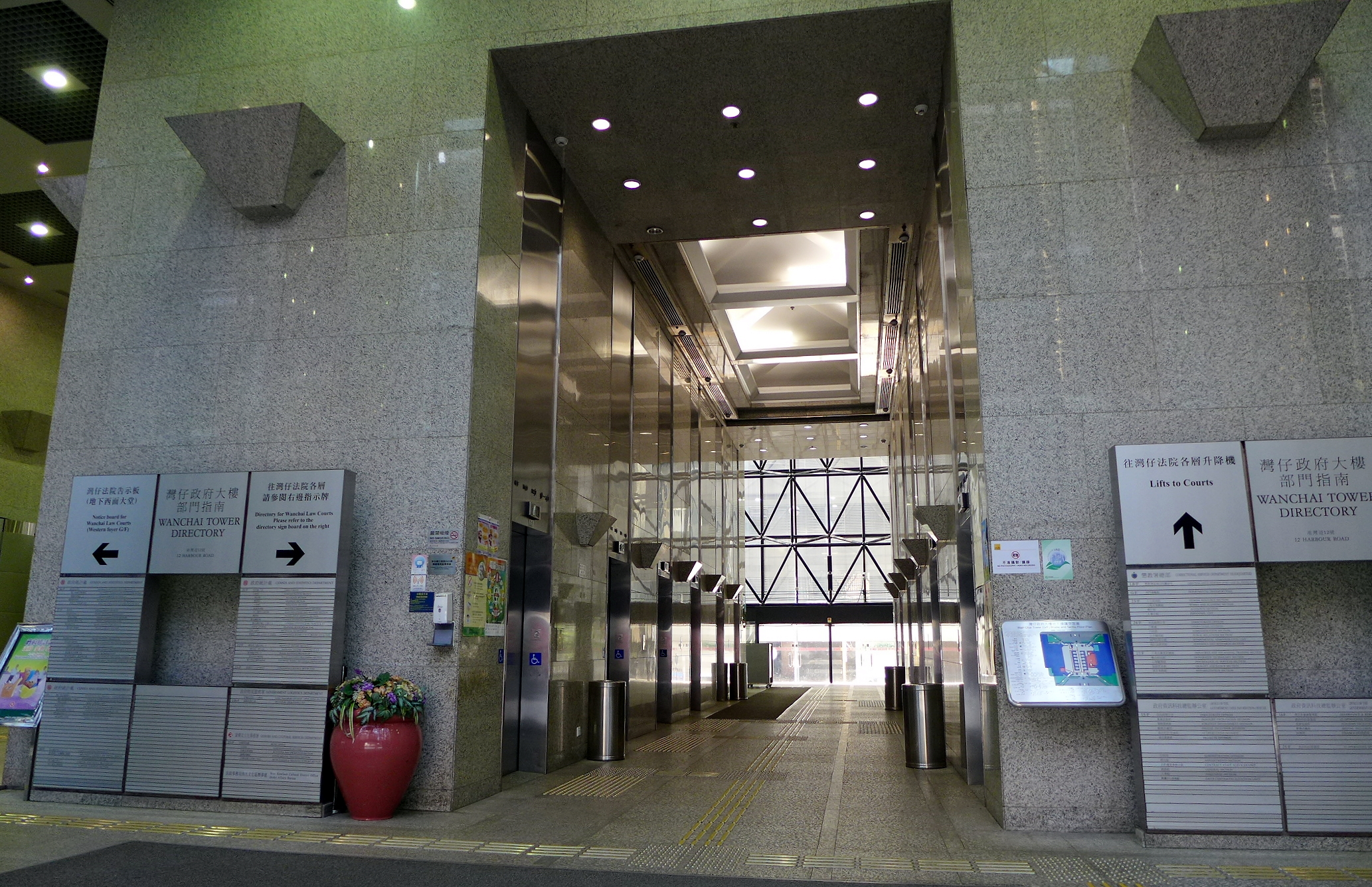 Wanchai Tower Lift lobby